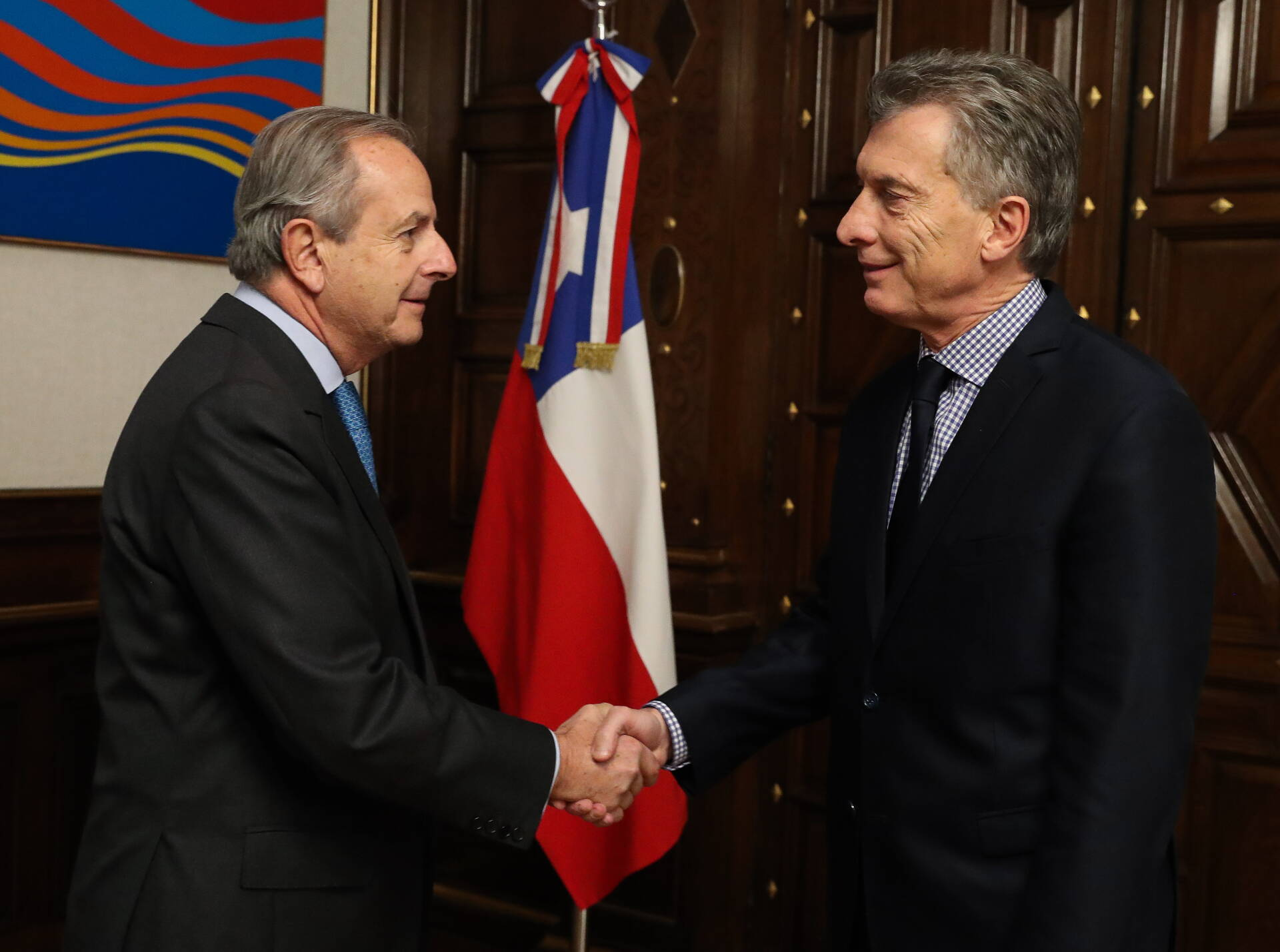 The newly appointed ambassador of Chile to Argentina Sergio Urrejola Monckberg presents his credentials to Mauricio Macri.